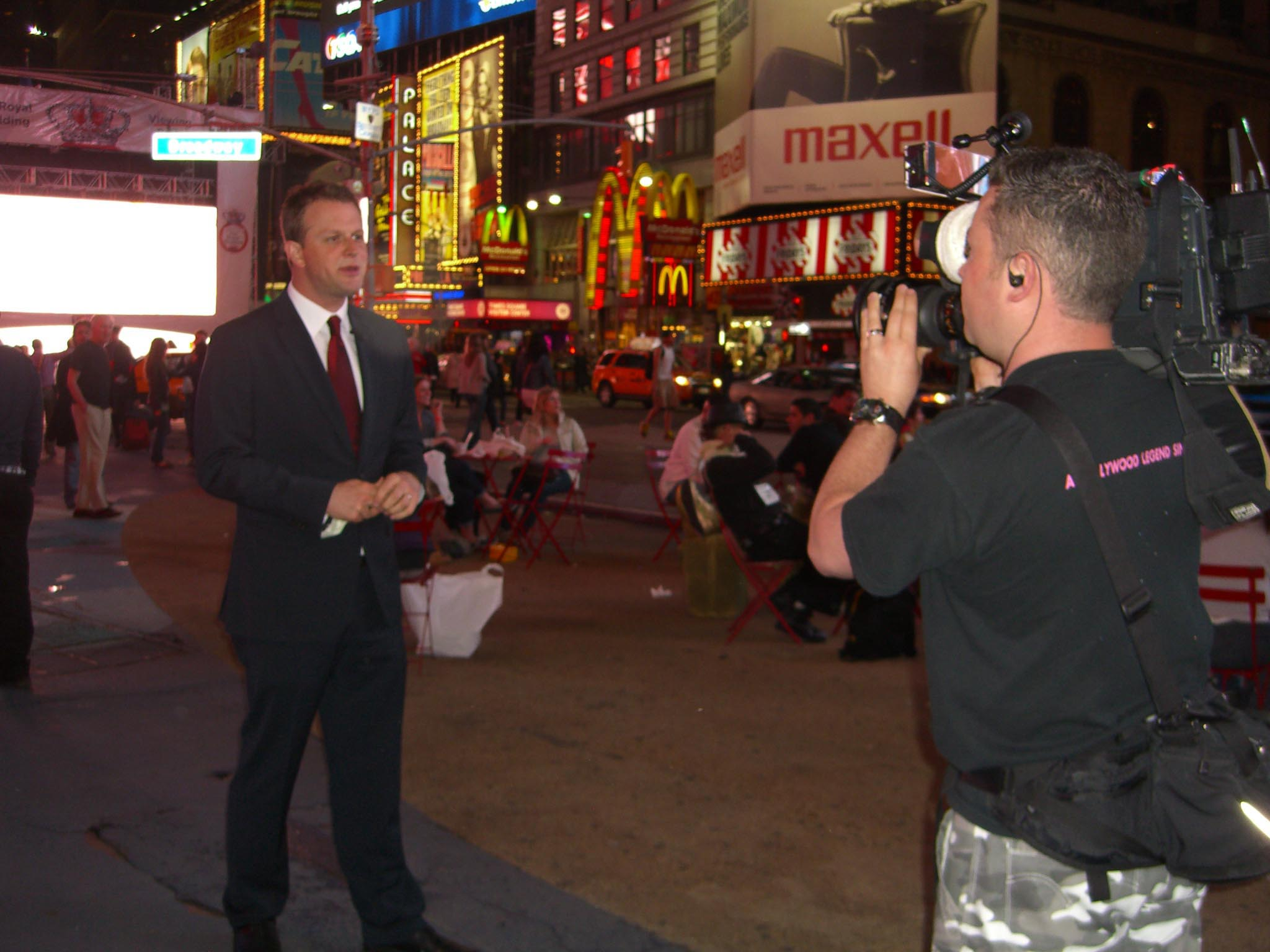 Daybreak correspondent Nick Dixon reporting on American reaction to the wedding of Prince William and Catherine Middleton in Times Square on the evening of April 28, 2011, hours before the wedding.